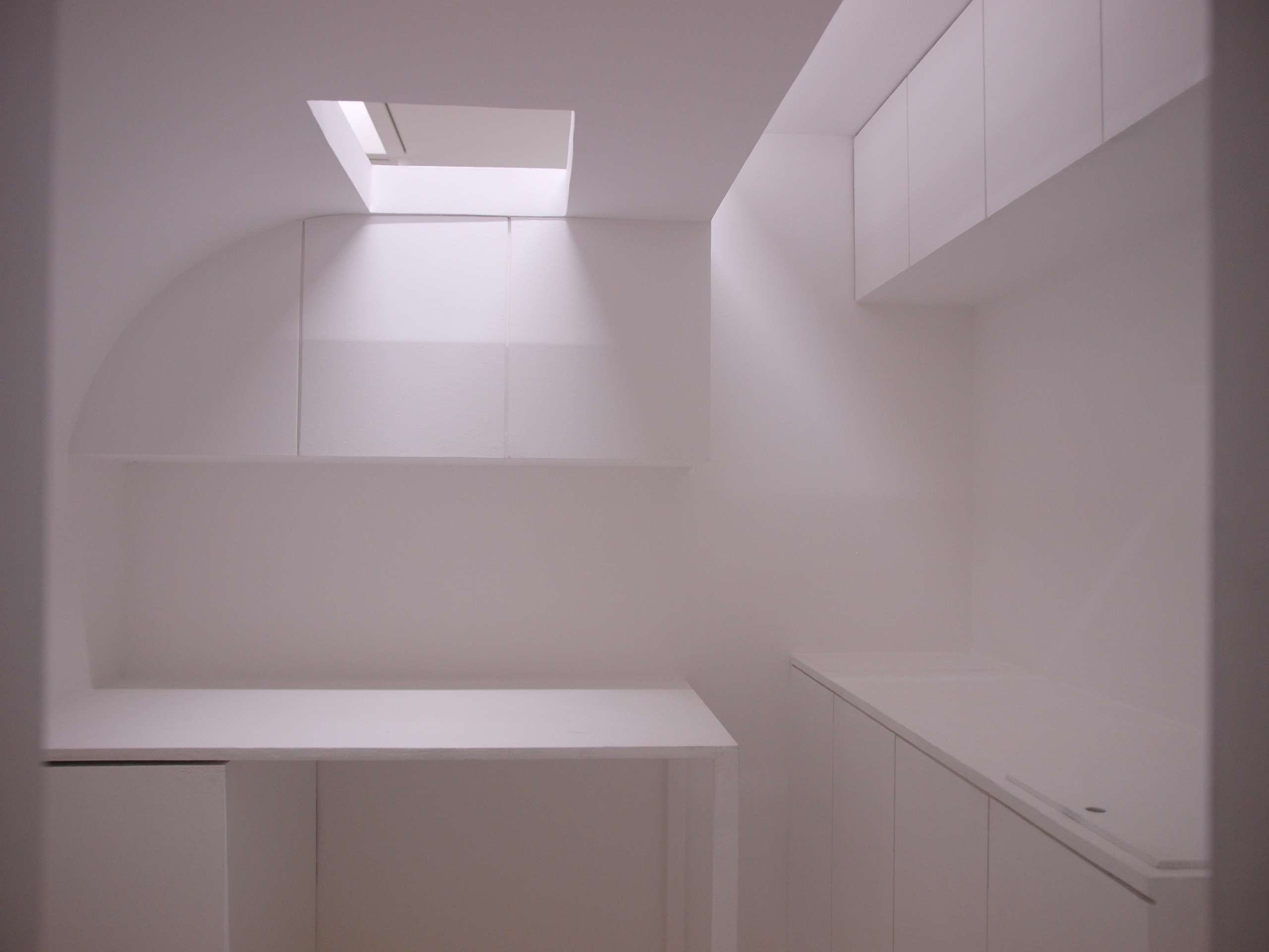 Inside view of living unit made by Absalon